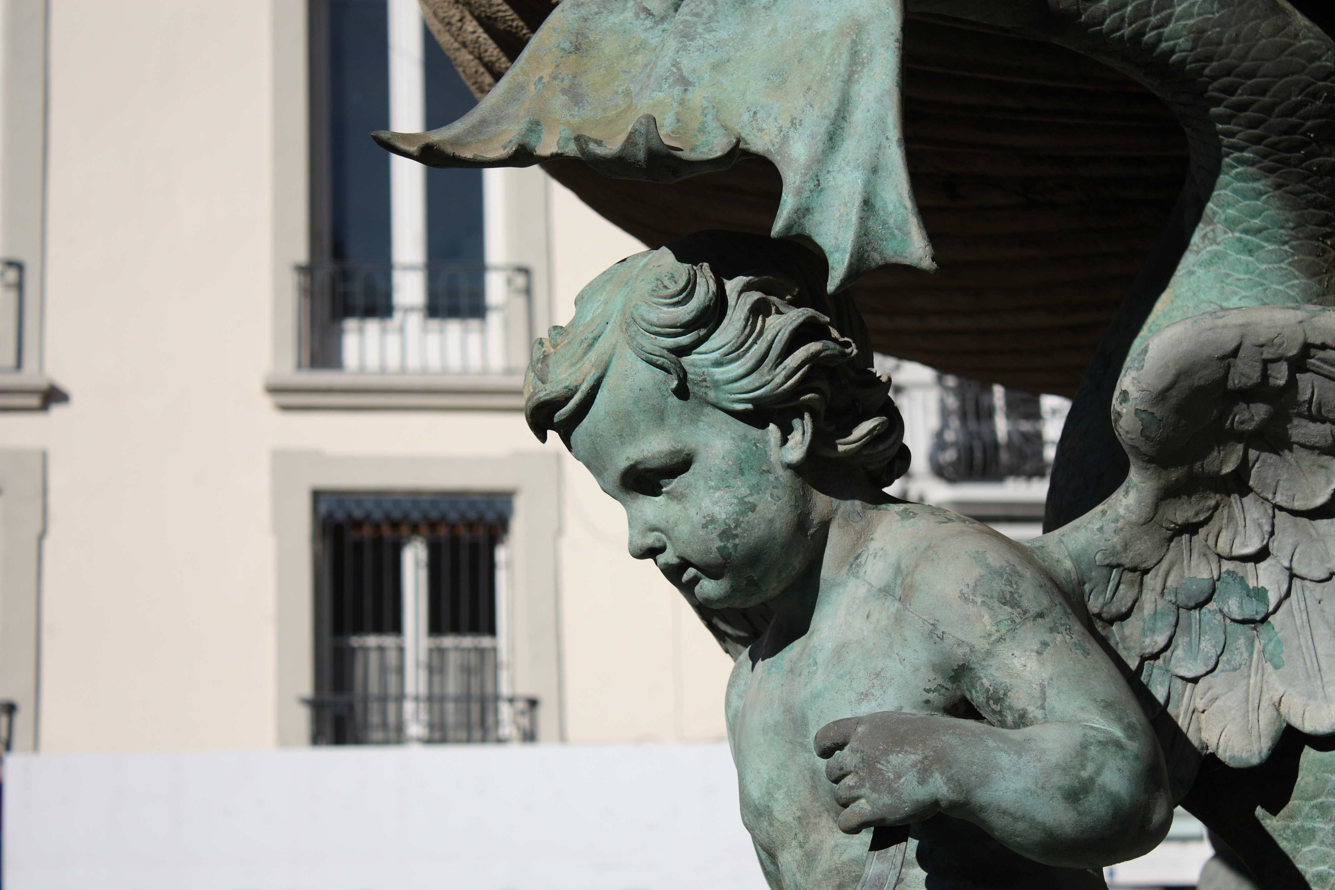 An angel on the fountain "château d'eau Lavalette" in the place Grenette, Grenoble (erected in 1825, Mr Gaymar architect, Nadon sculptor).